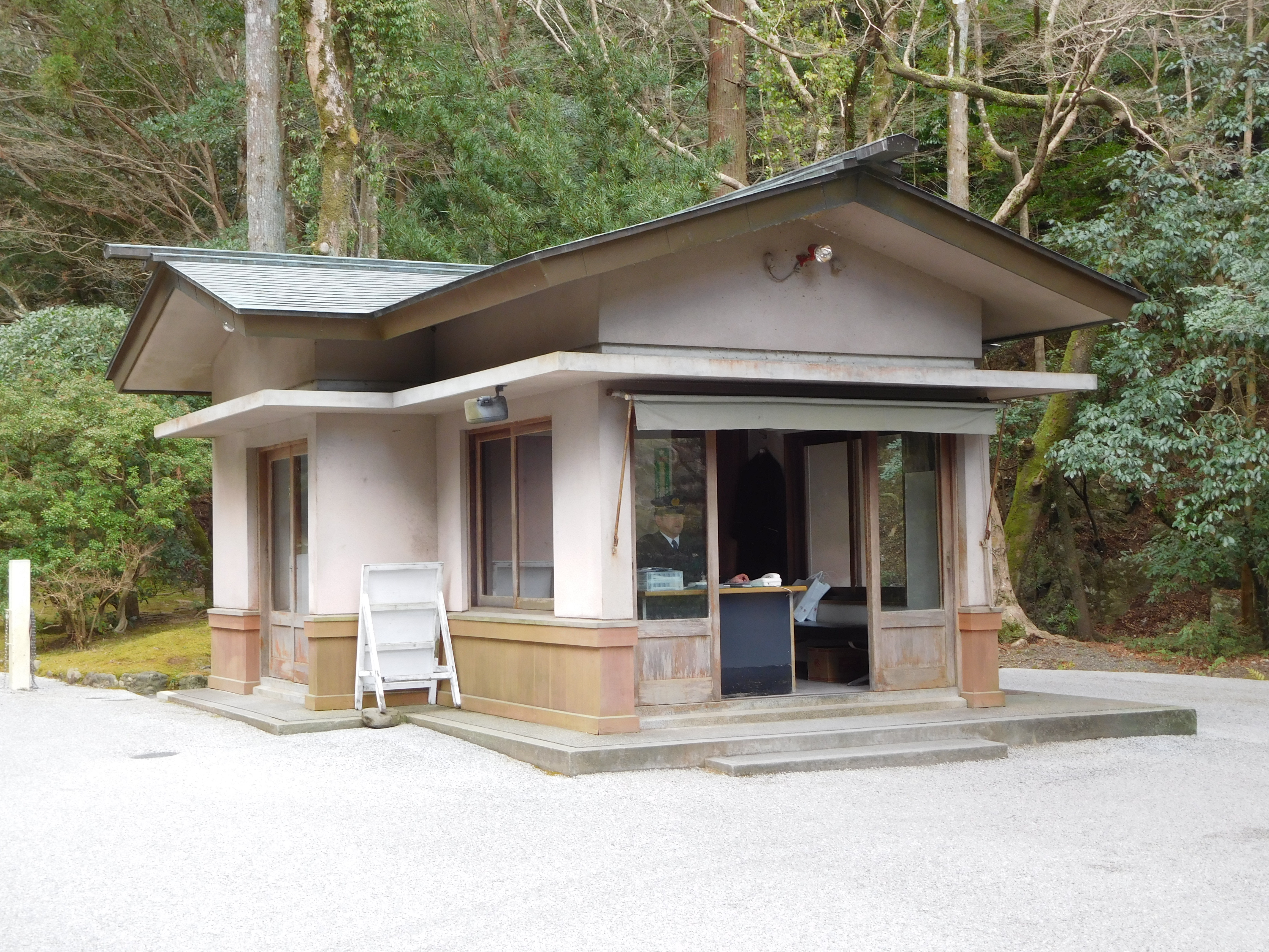 This is the security office in Ise Jingu Naiku, Ise, Mie, Japan.